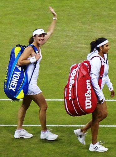 Martina Hingis and Sania Mirza won the ladies' doubles title at Wimbledon 2015